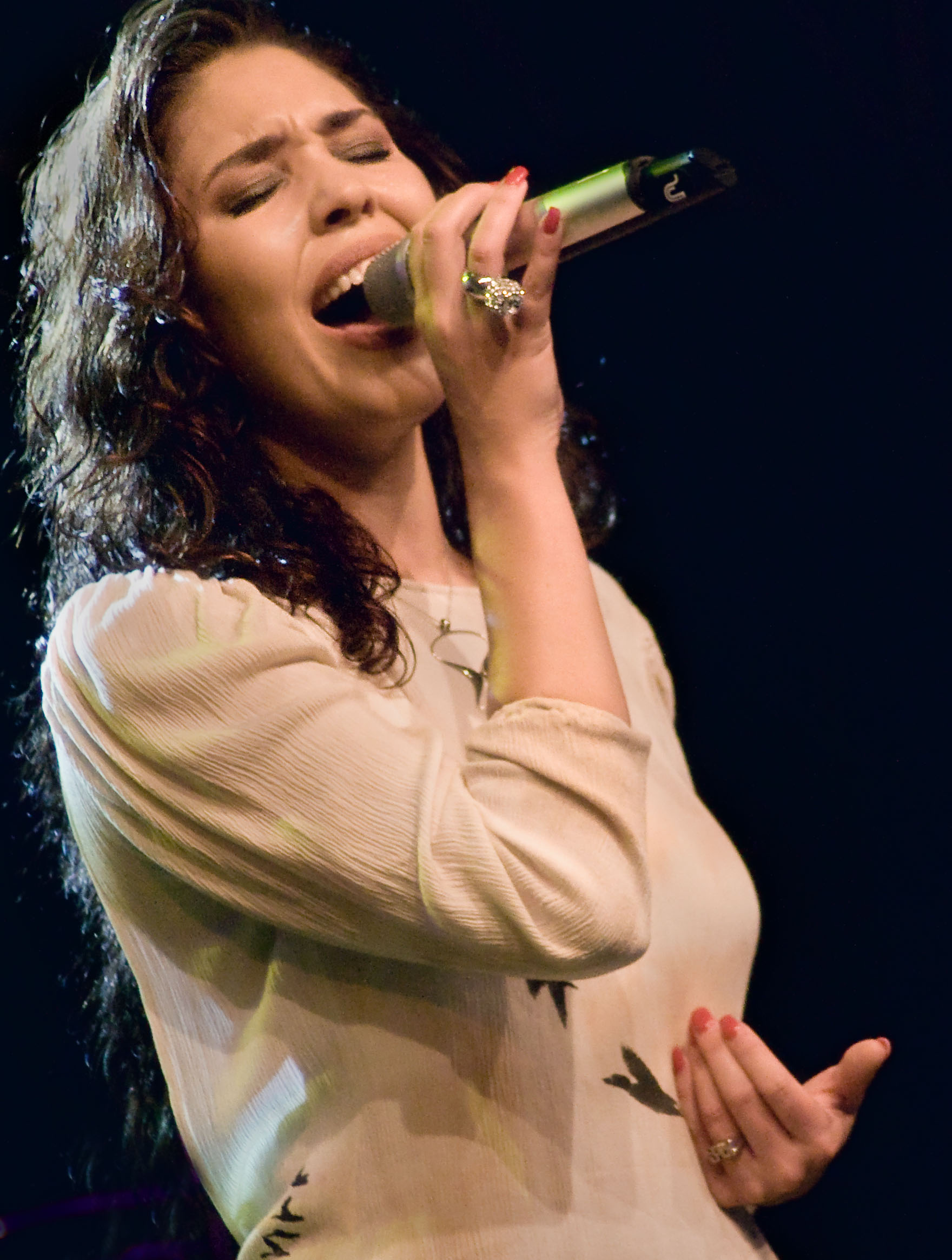 Hind Laroussi